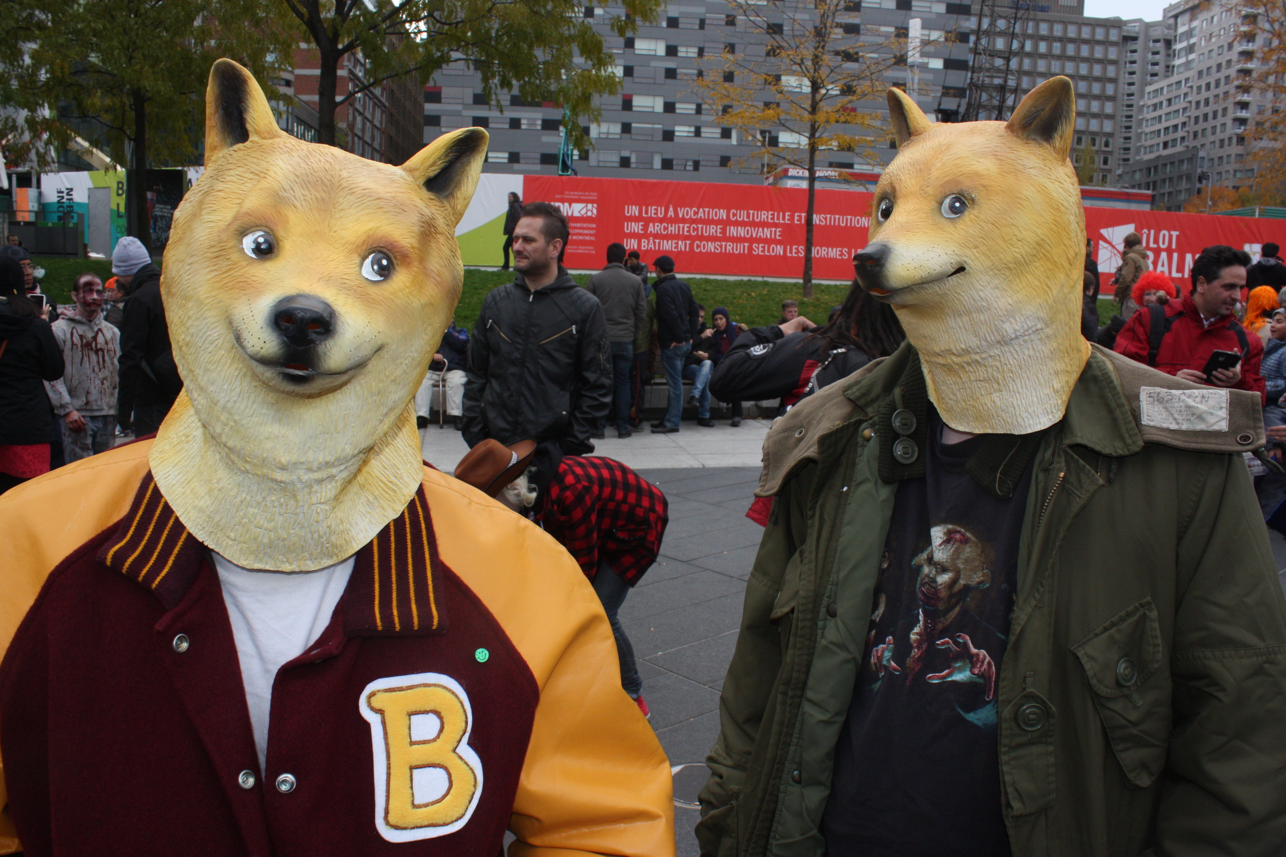 wow such living very un-un-dead much out-of-place